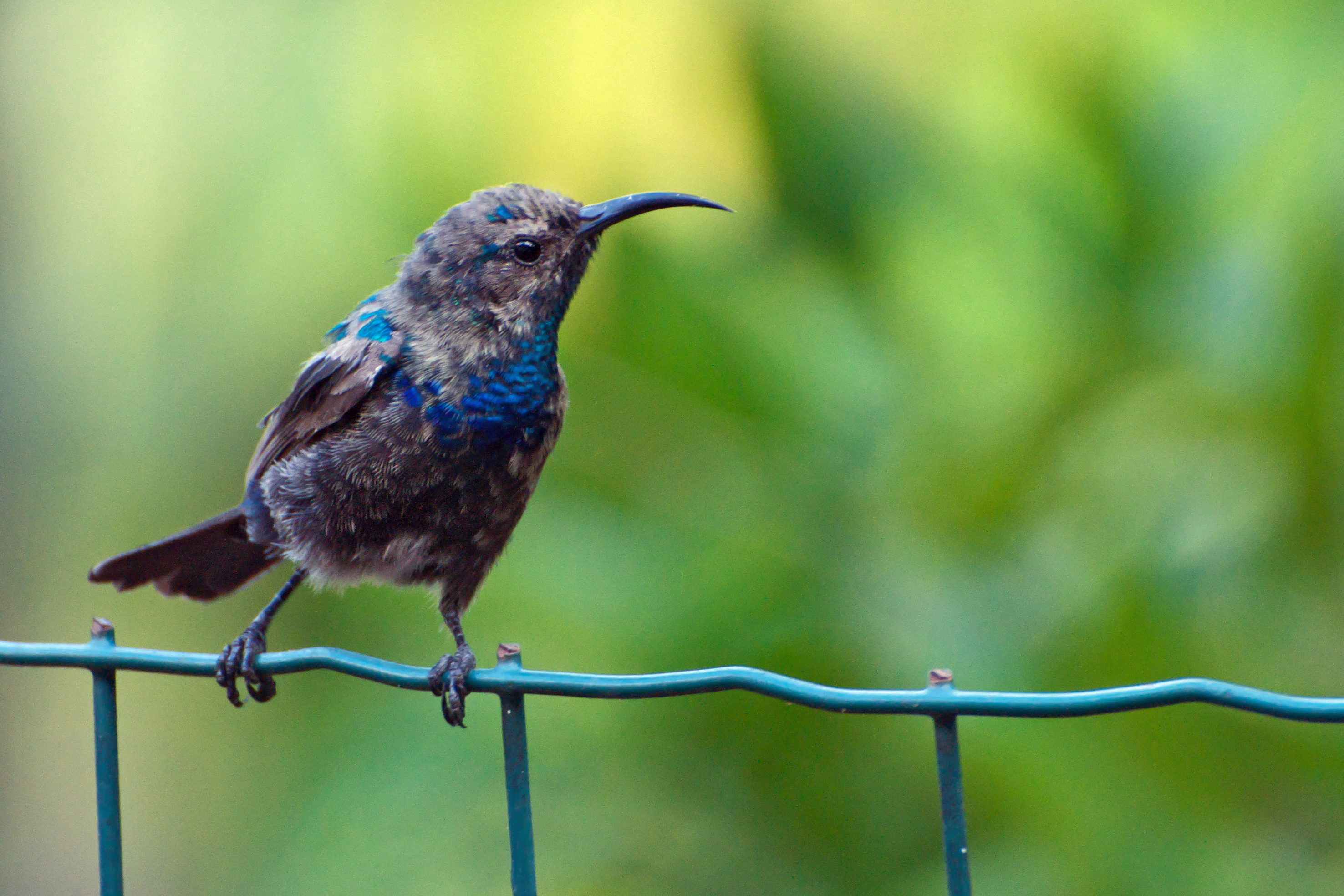 Palestine Sunbird standing on a fence